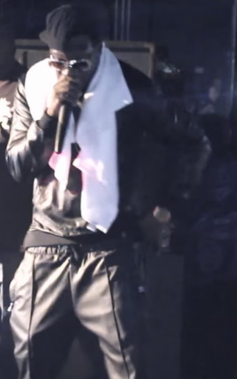 Young Dro